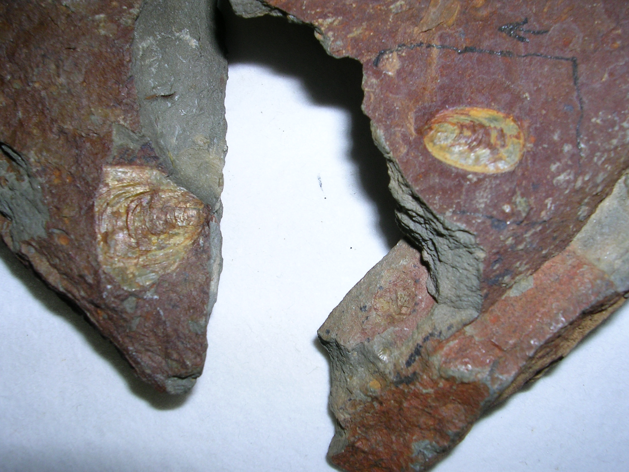 Lingula sp. fossil (Late Devonian) found in Herrera del Duque (Badajoz), in a laboratory of practices of the Faculty of Sciences of the University of Corunna.